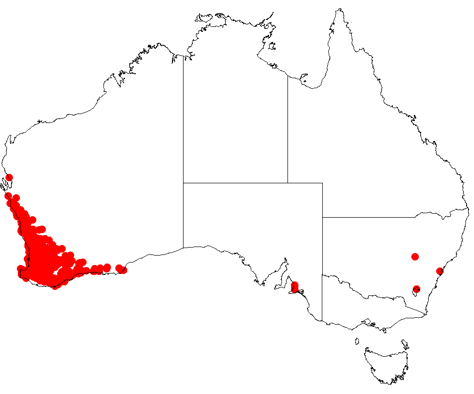 Hakea lissocarpha Occurrence data downloaded from Australasian Virtual Herbarium on 22 November 2018 using